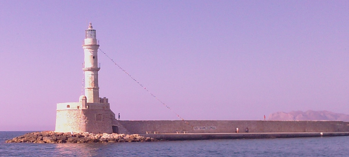 Lighthouse in Chania Crete Greece